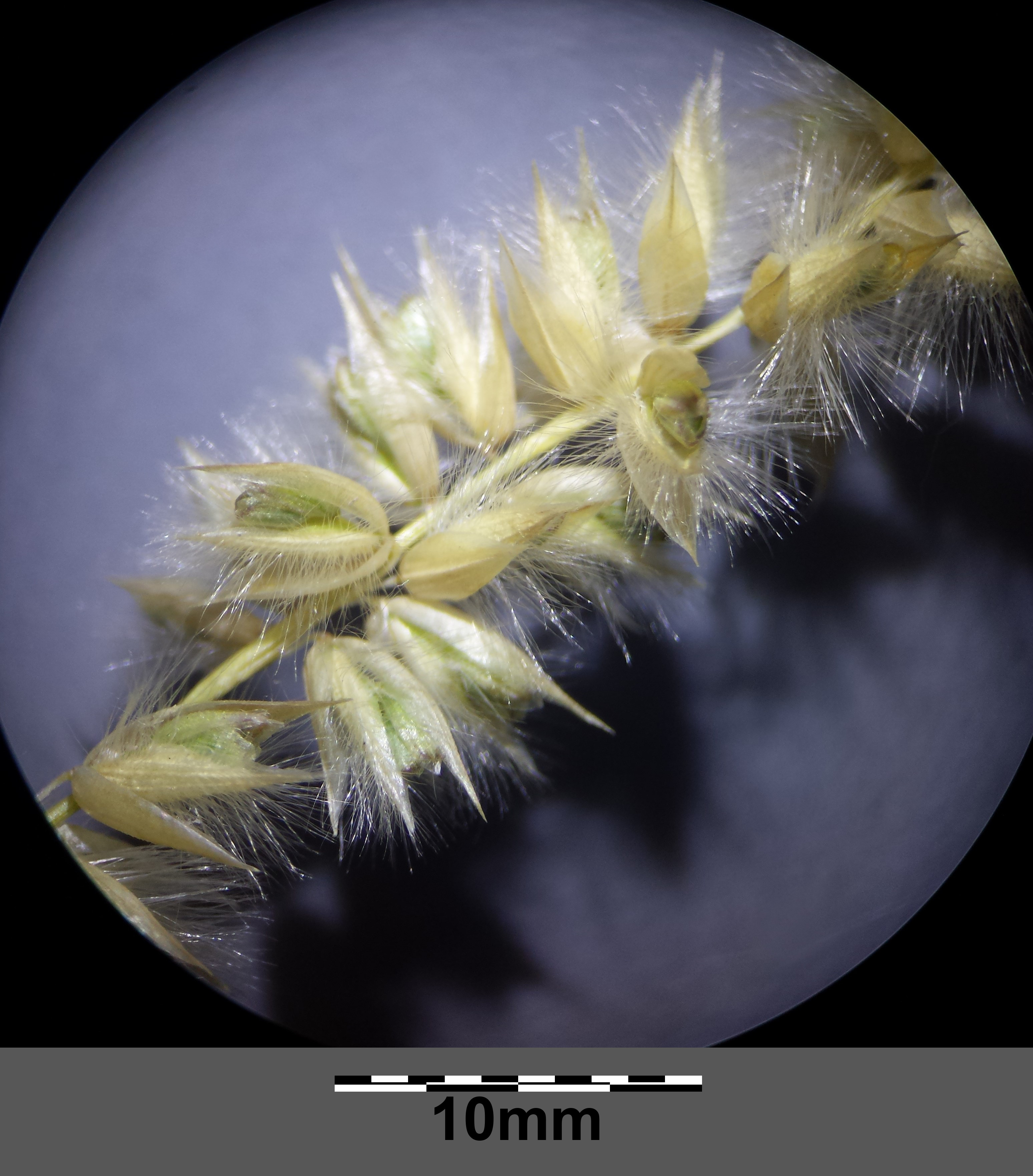 Panicle (detail) Taxonym: Melica ciliata subsp. ciliata ss Fischer et al. EfÖLS 2008 ISBN 978-3-85474-187-9 Location: Neue Donau, district Korneuburg, Lower Austria - ca. 160 m a.s.l. Habitat: stone area